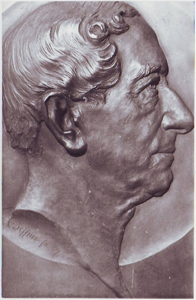 bronze relief of Theodor Julius Jaffe, made by Karl Seffner